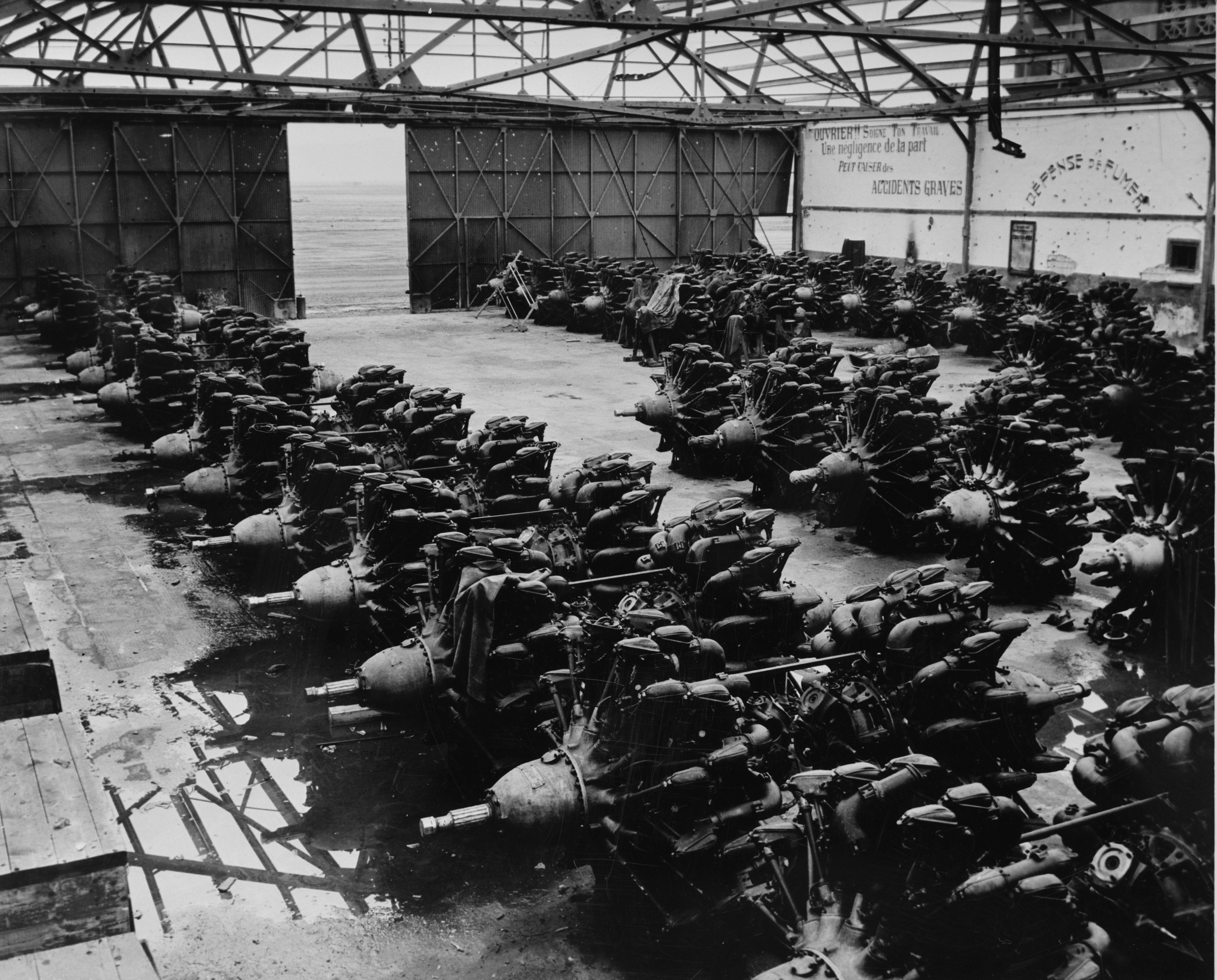 French Gnome-Rhône 14K Mistral Major 14-cylinder two-row air-cooled radial engines in a damaged hangar in North Africa, in 1943.